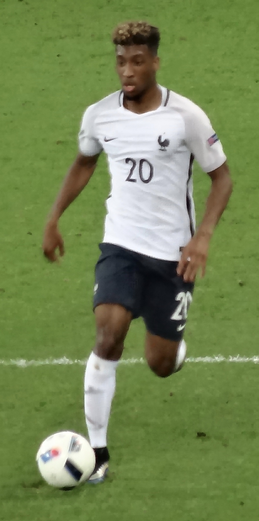 Kingsley Coman (Euro 2016)